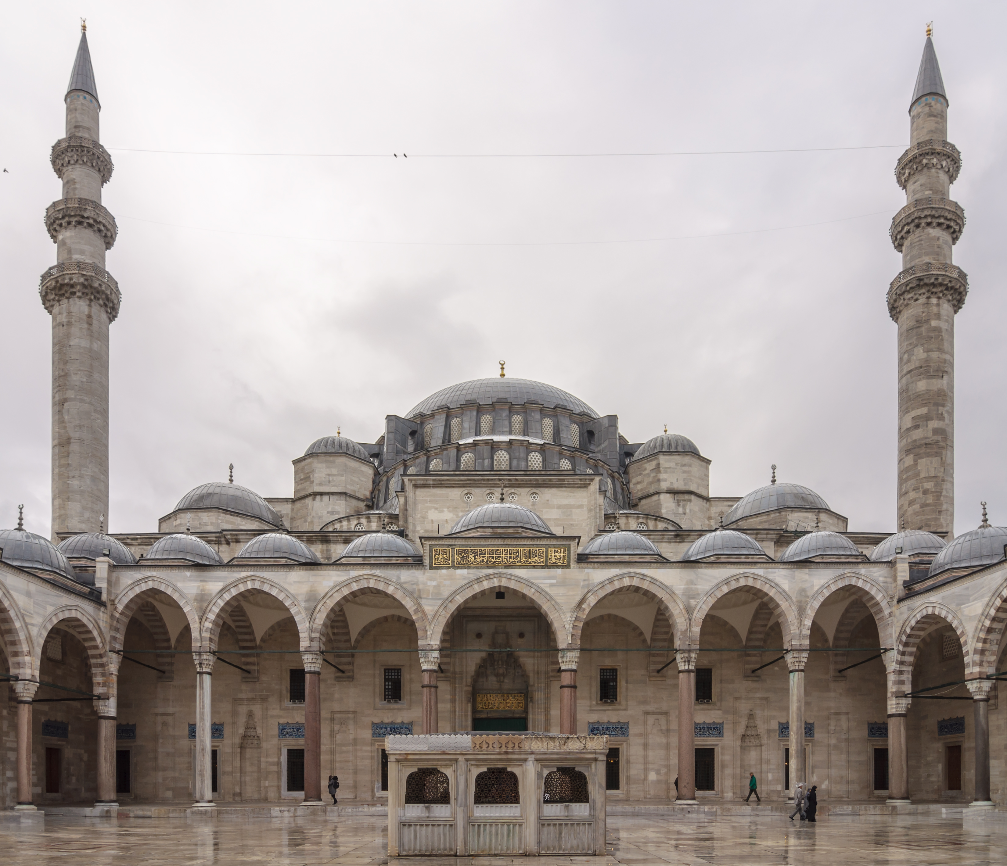 Courtyard of the Süleymaniye Mosque in Istanbul, Turkey.